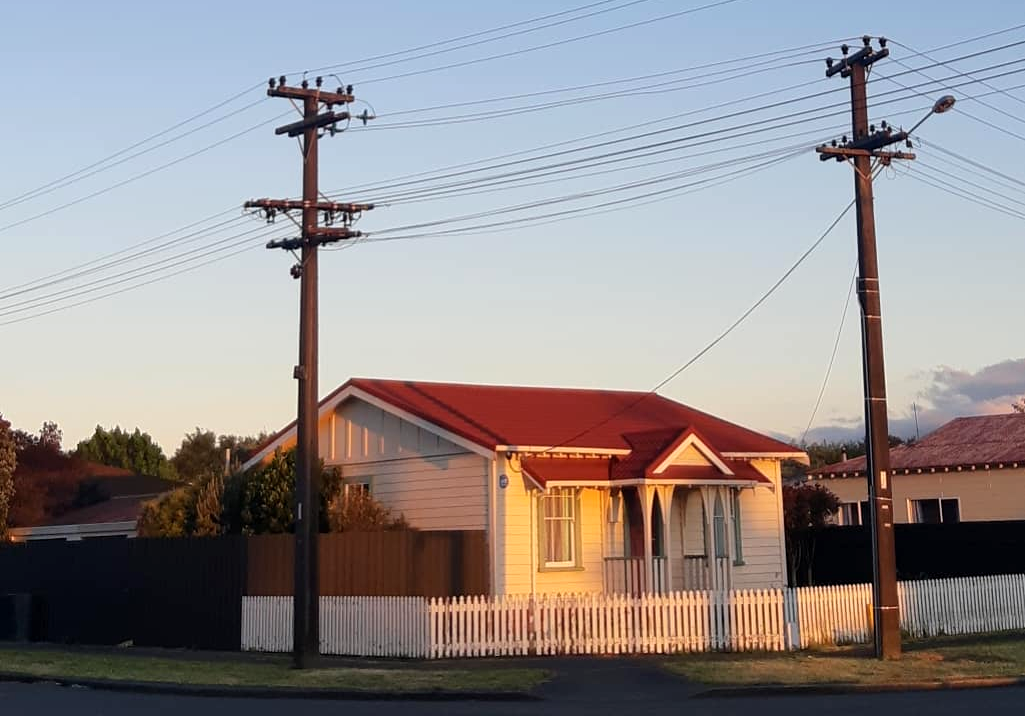 This is an ex-railway worker house in Milson suburb, Palmerston North, New Zealand. It was erected in 1926 along with 70 other railway cottages in Milson.